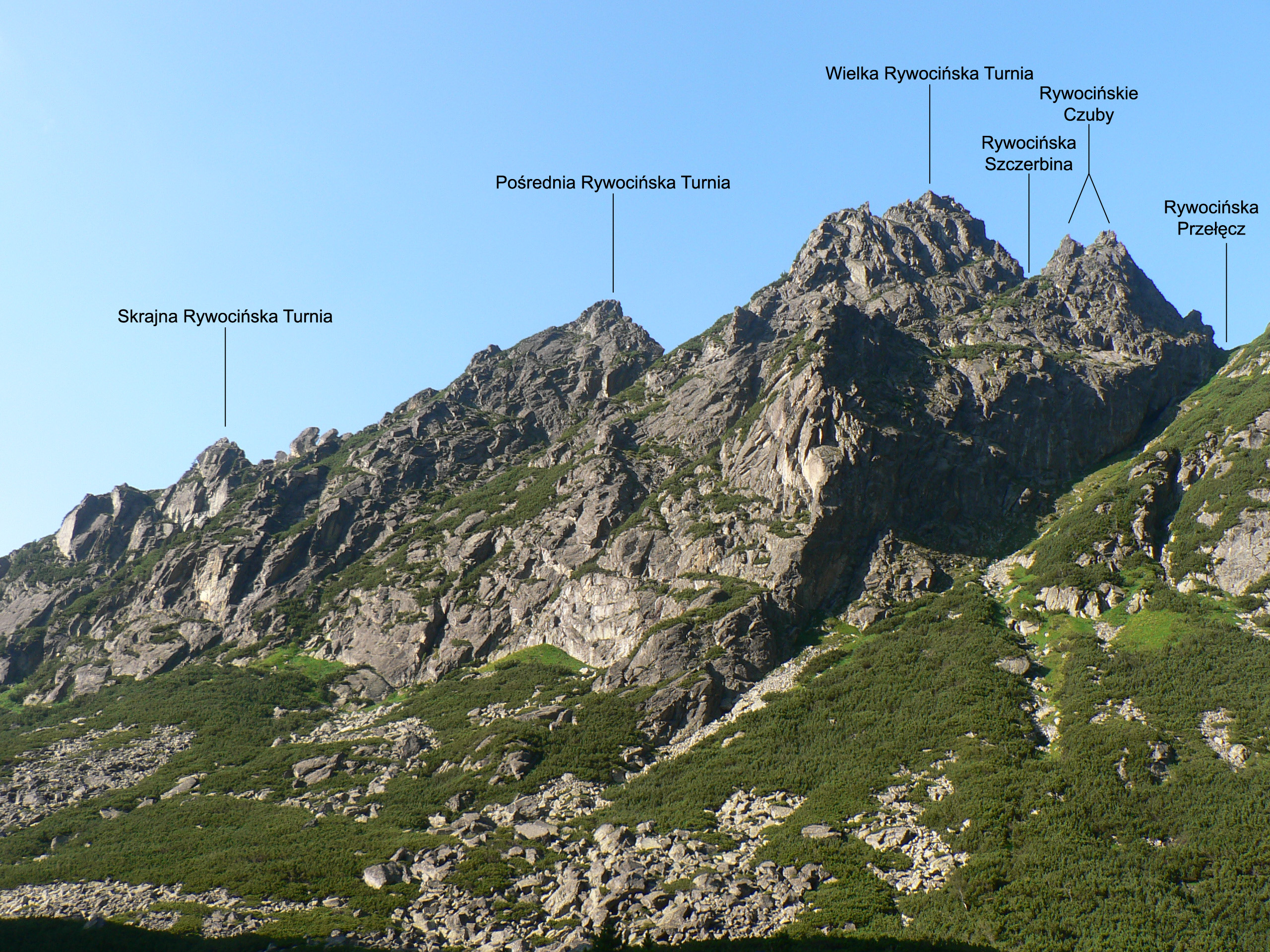 Oštepy – view from Malá Studená Valley (Polish names of places).